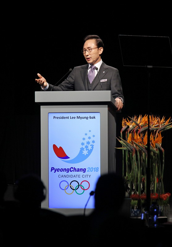 President Lee Myung-bak speaks during the presentation at the 123rd IOC session in support of Pyeongchang's bid to host the 2018 Winter Games in Durban, South Africa on July 6, 2011.